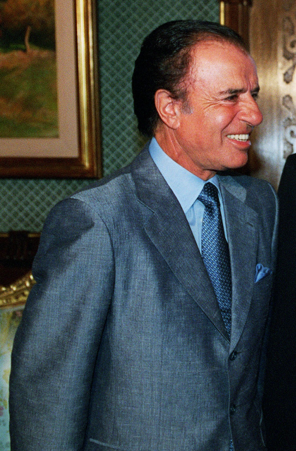 Carlos Menem, president of Argentina 1989-1999